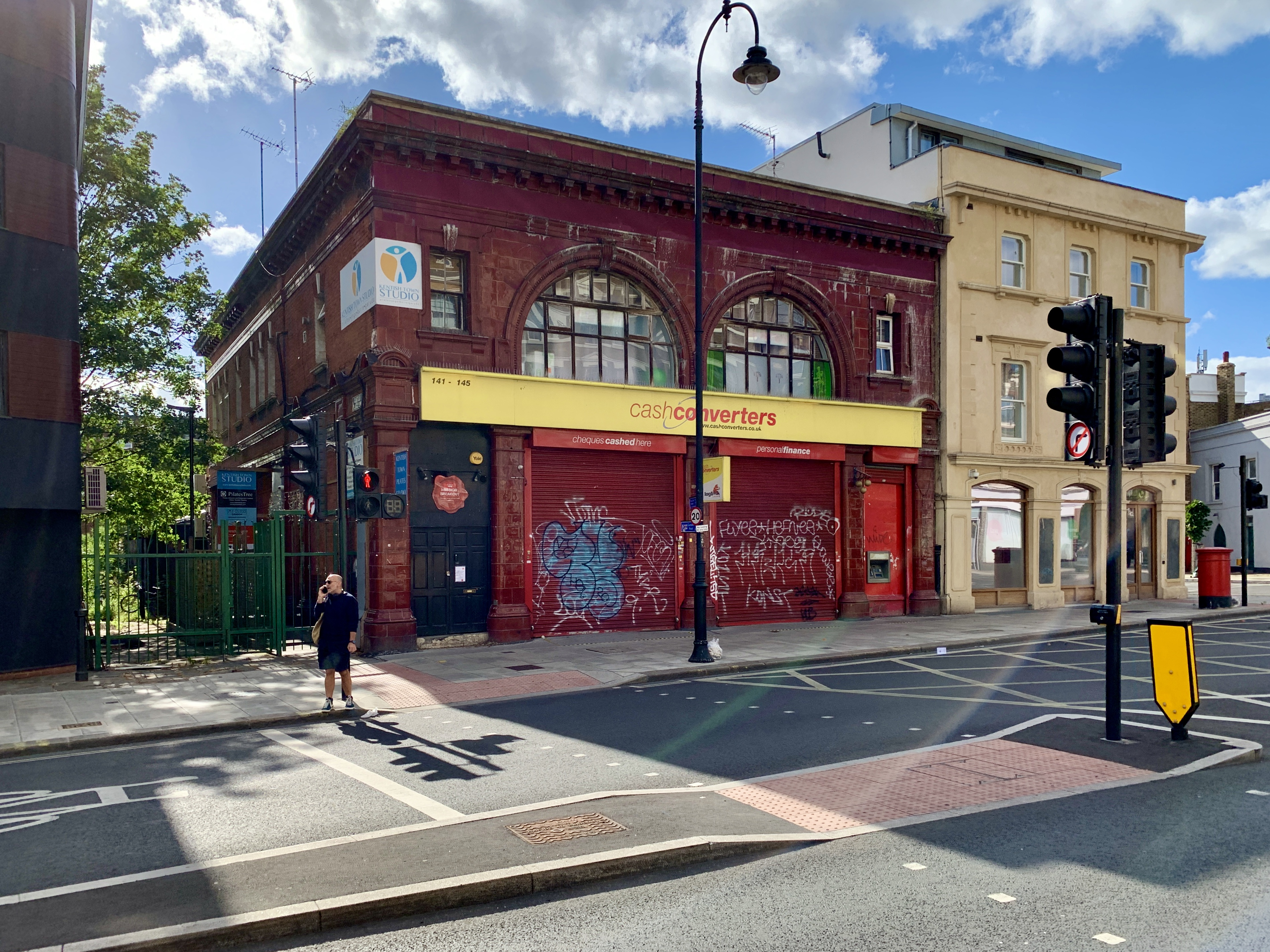 Station building of abandoned station South Kentish Town Taken during my Northern Line Tube Walk.